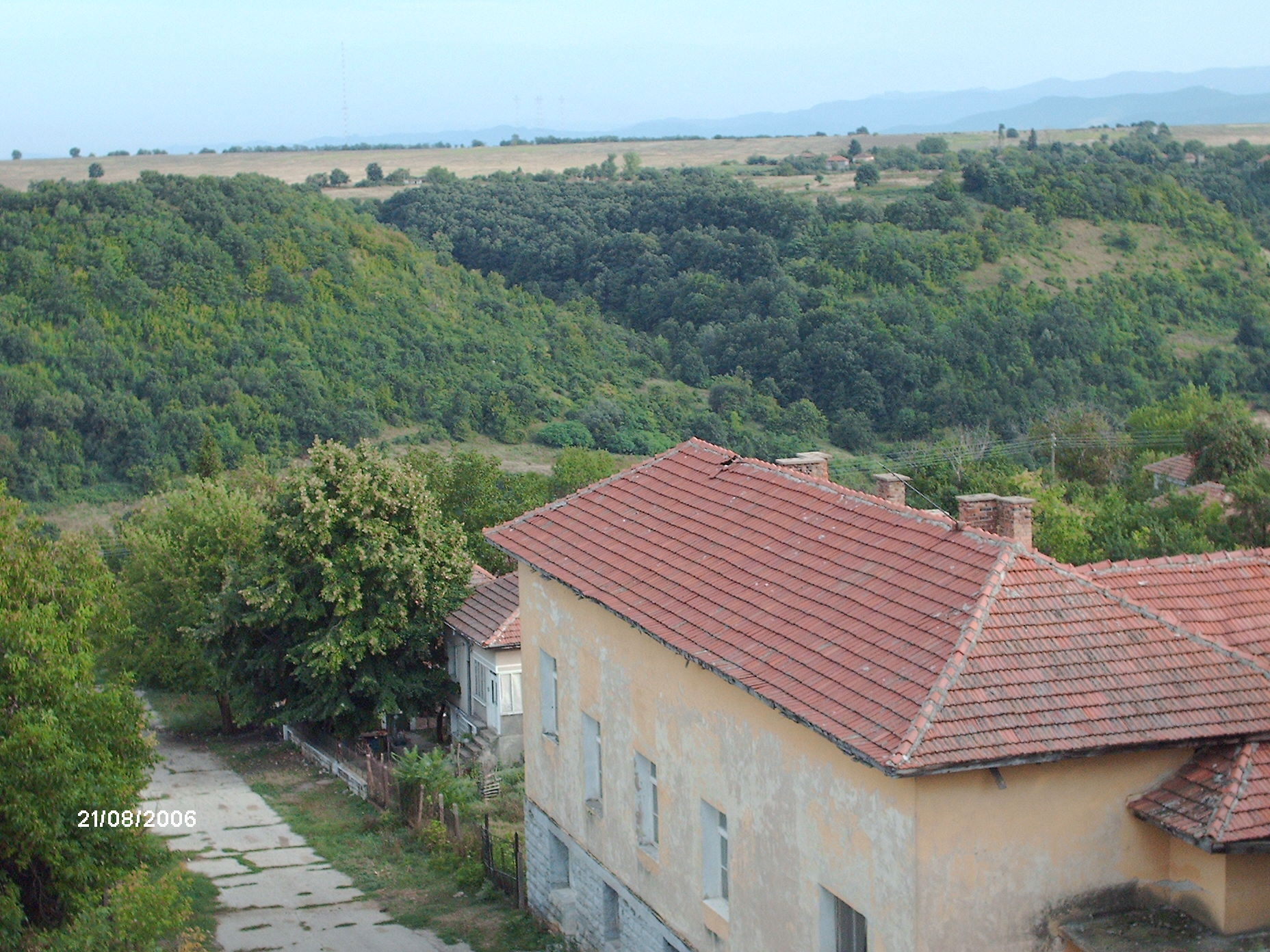 The school in village Milchina Laka, Bulgaria